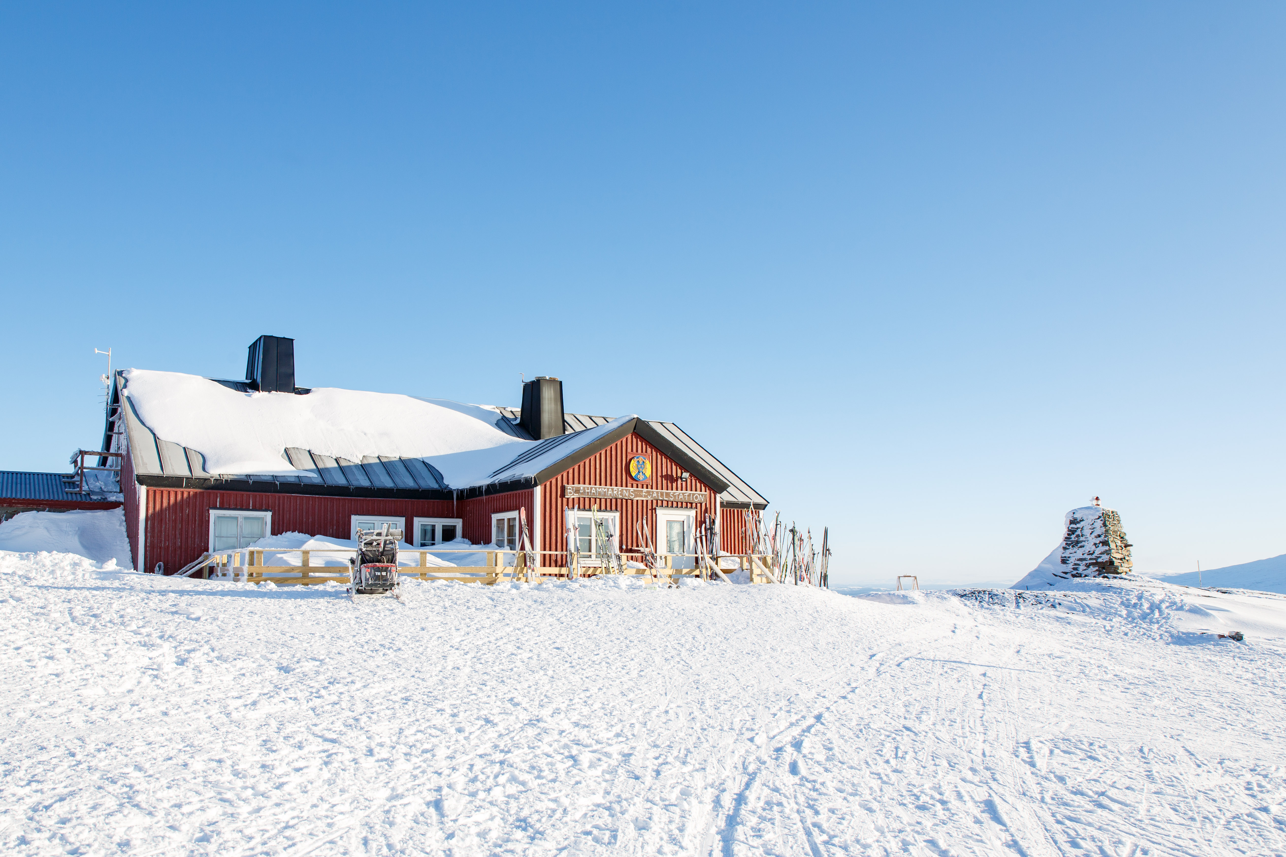 Blåhammaren Fjällstation, Sweden, in the morning in winter